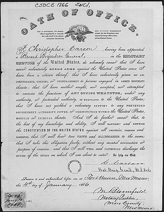 Oath of Office included in a letter by Christopher 'Kit' Carson to Secretary of War, Edwin M. Stanton, acknowledging his appointment as Brevet Brigardier General at Fort Union, today Fort Union National Monument